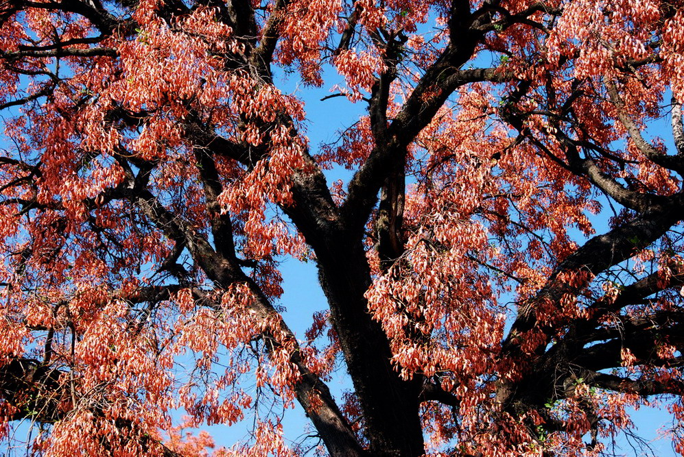 Erythrina dominguezii in bloom: detail. Goya, Corrientes Province, Argentina.